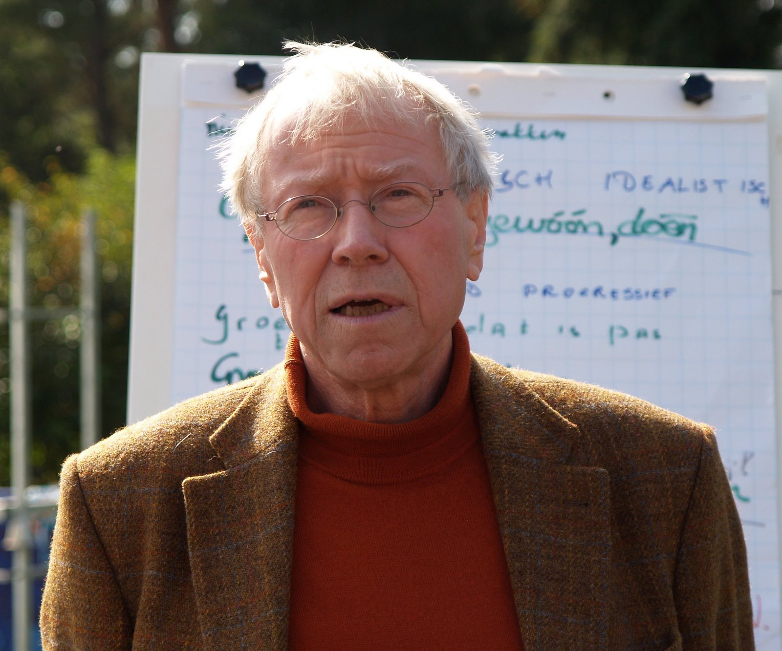 Volkskrant columnist Marcel van Dam